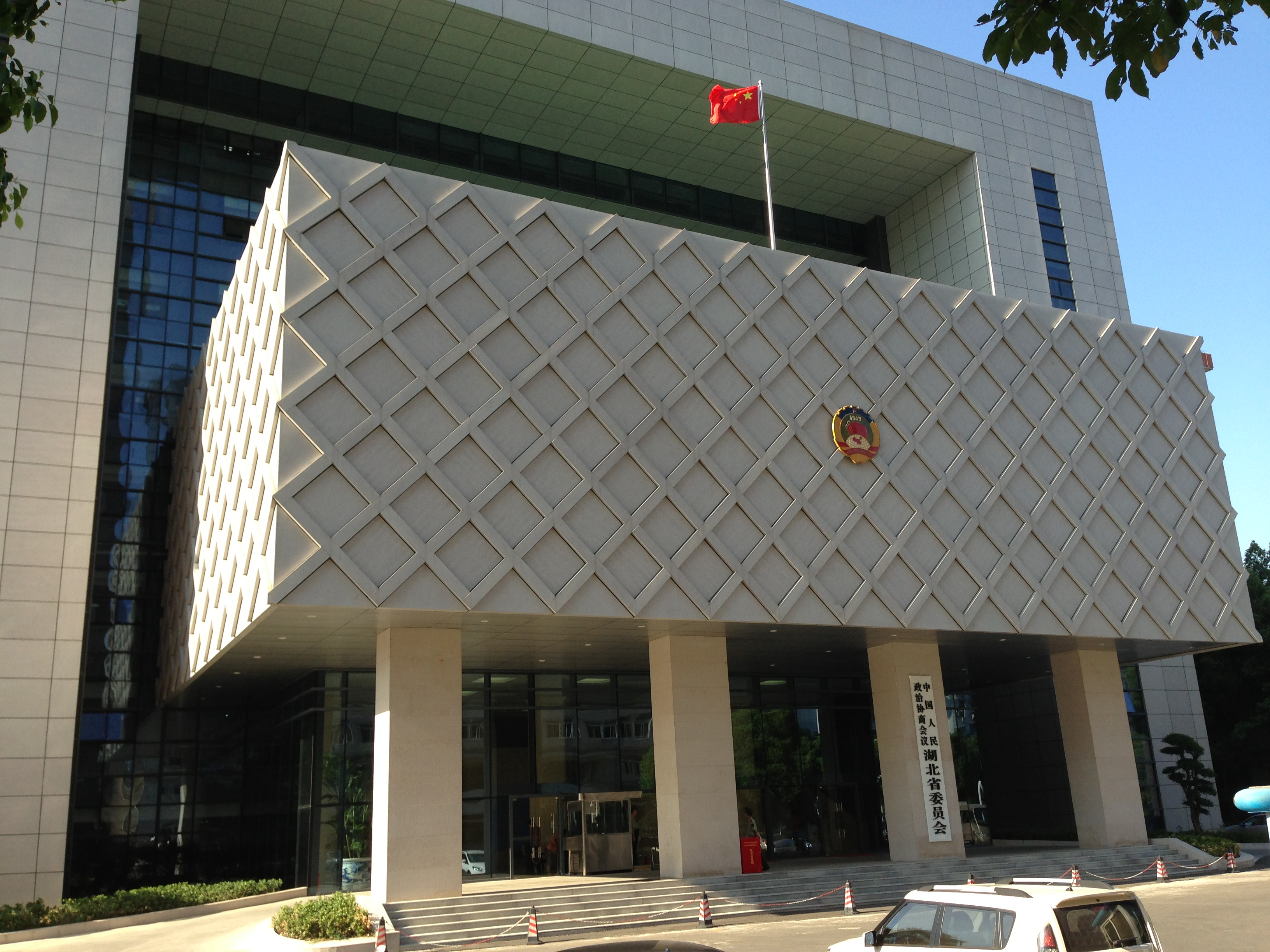 PPCC of Hubei Province, P.R.China.